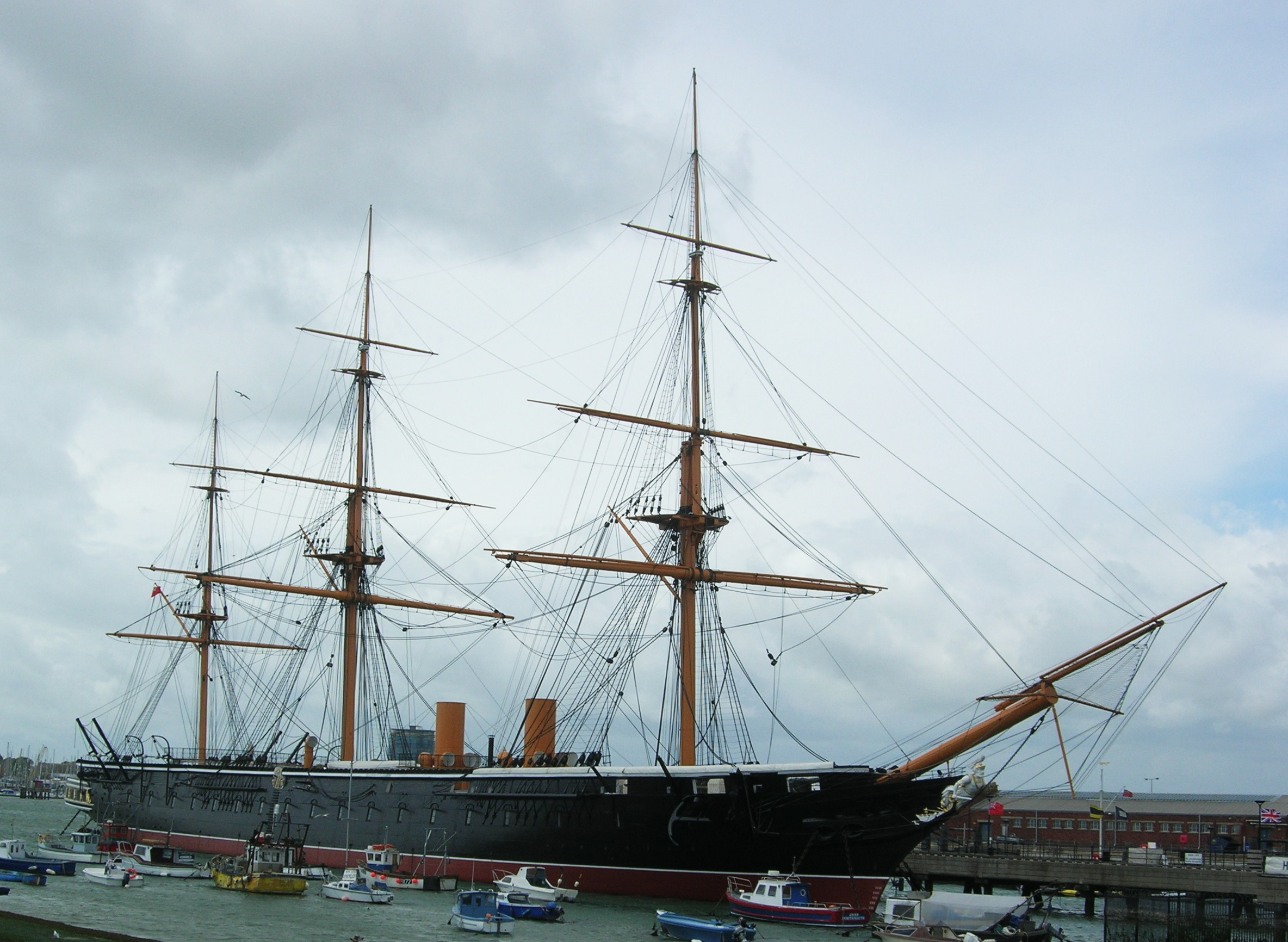 Description =HMS Warrior Source =Photo taken by Remi Jouan Date =Mai 2006